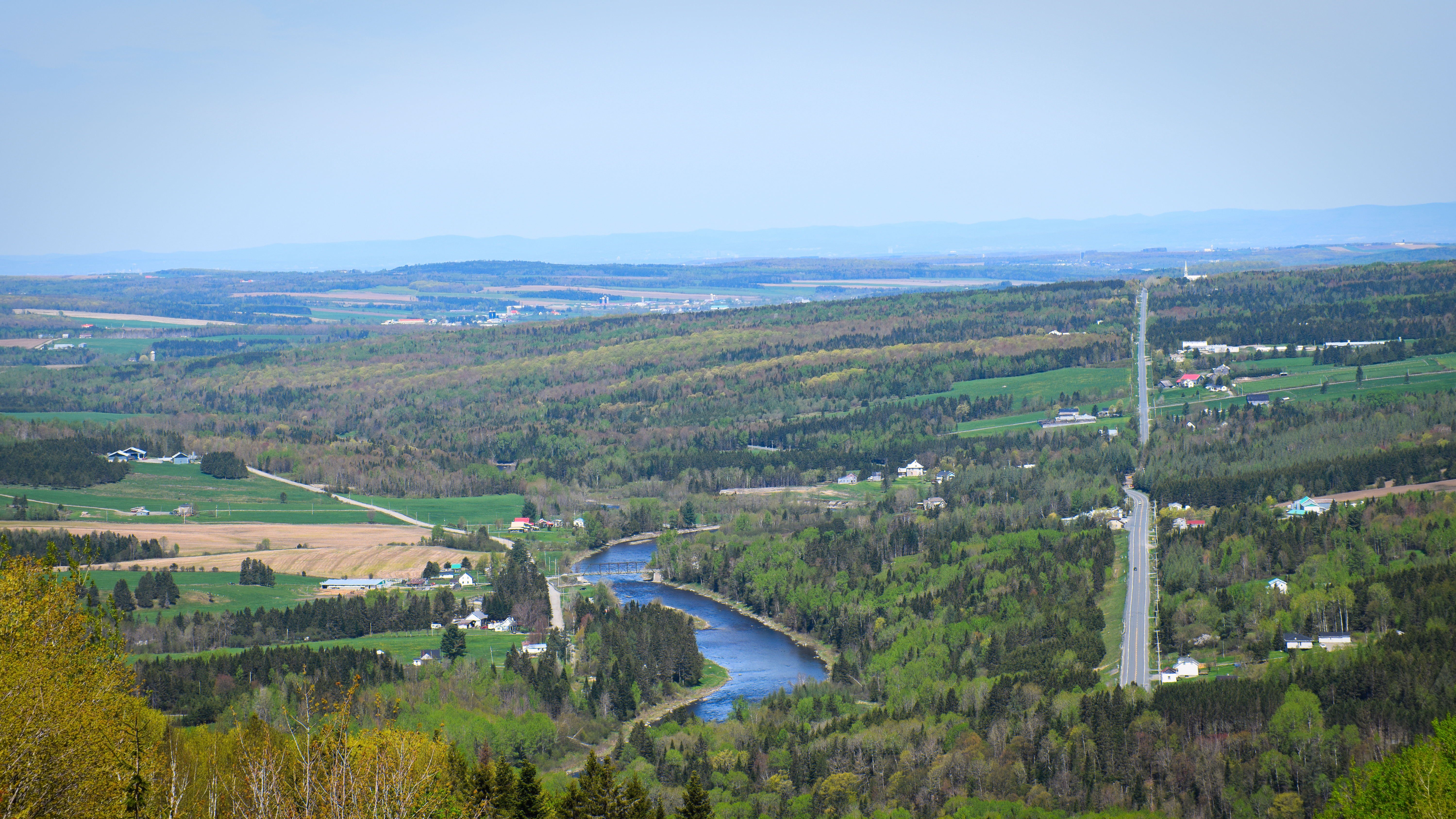 The valley of the Etchemin River is clearly visible on this picture taken from the Crapaudière in Saint-Malachie. The Harper Bridge can be seen over the Etchemin River and the bell tower of Saint-Malachie's catholic church can be seen on the upper right of the picture.